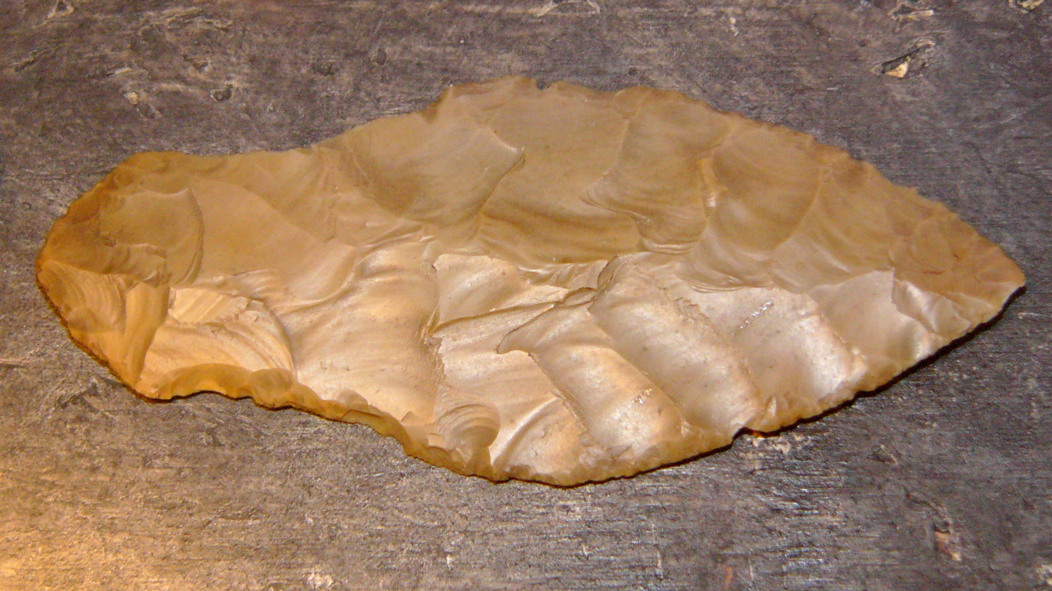 Flintstone knife from (Czech Republic)..